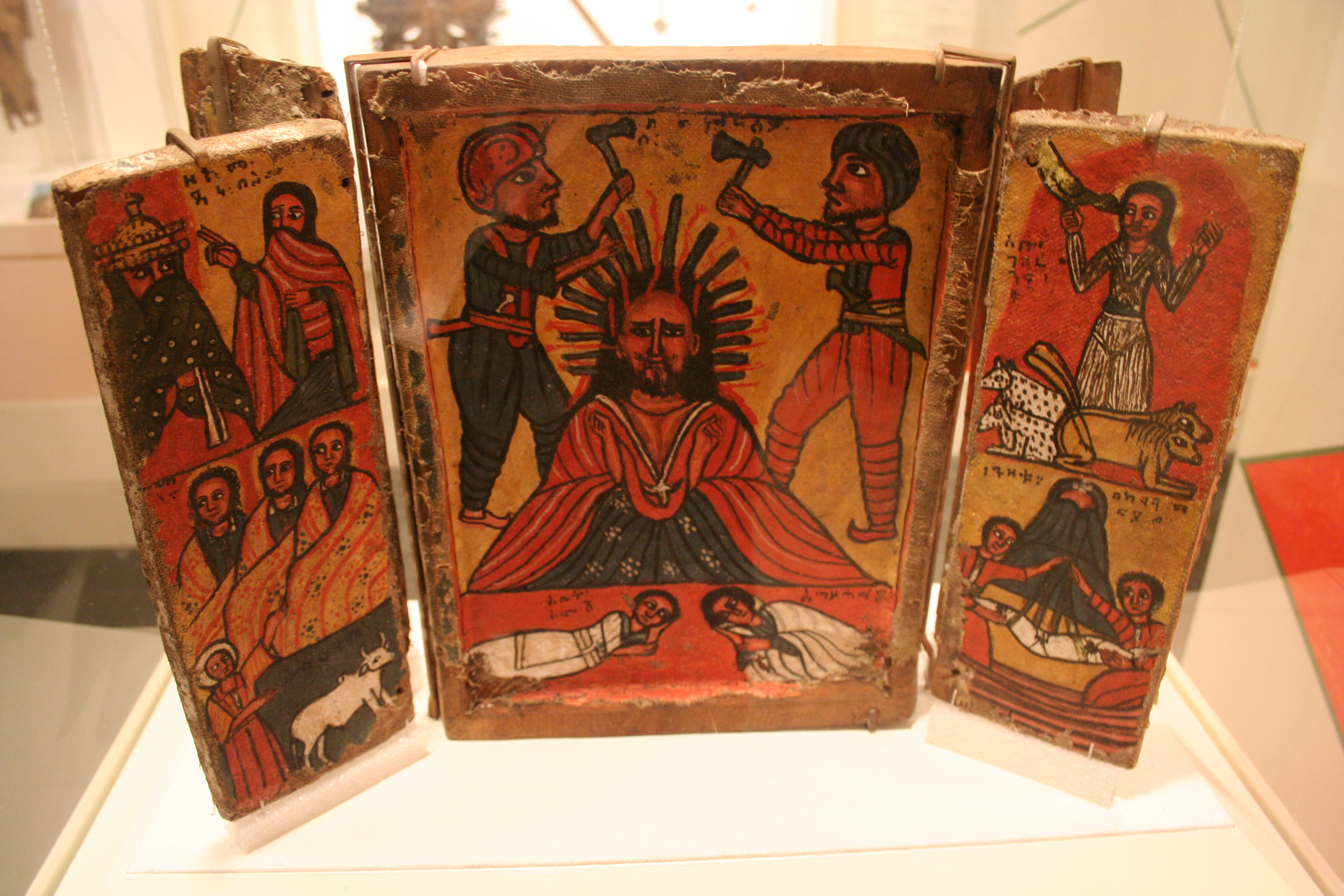 Unknown Amhara Artist. Icon, 19th century. Wool, linen, gesso, tempura. Brooklyn Museum, Gift of Mr. and Mrs. Franklin H. Williams, 76.132.